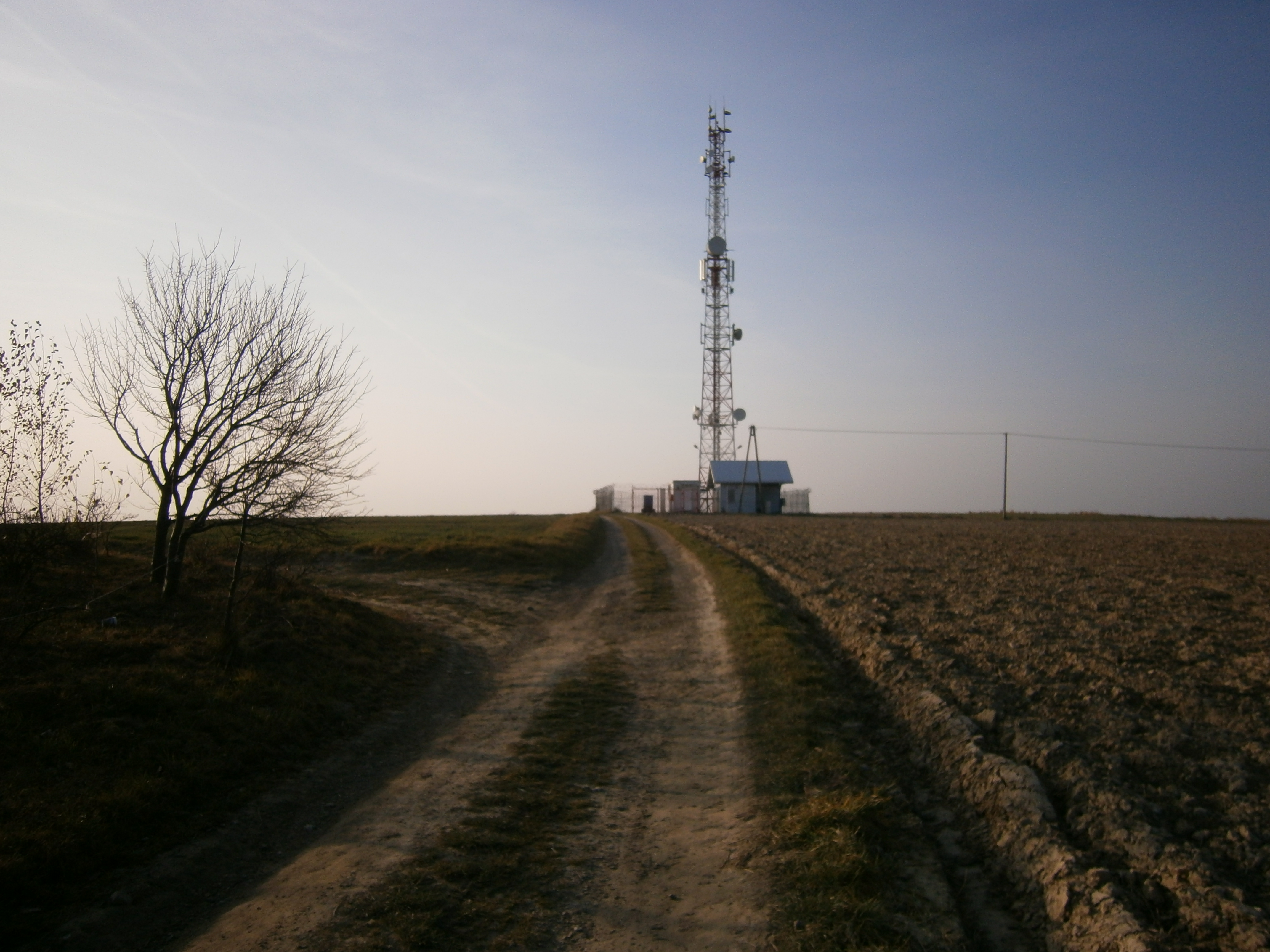 Orange transmitter atop the Great Mountains